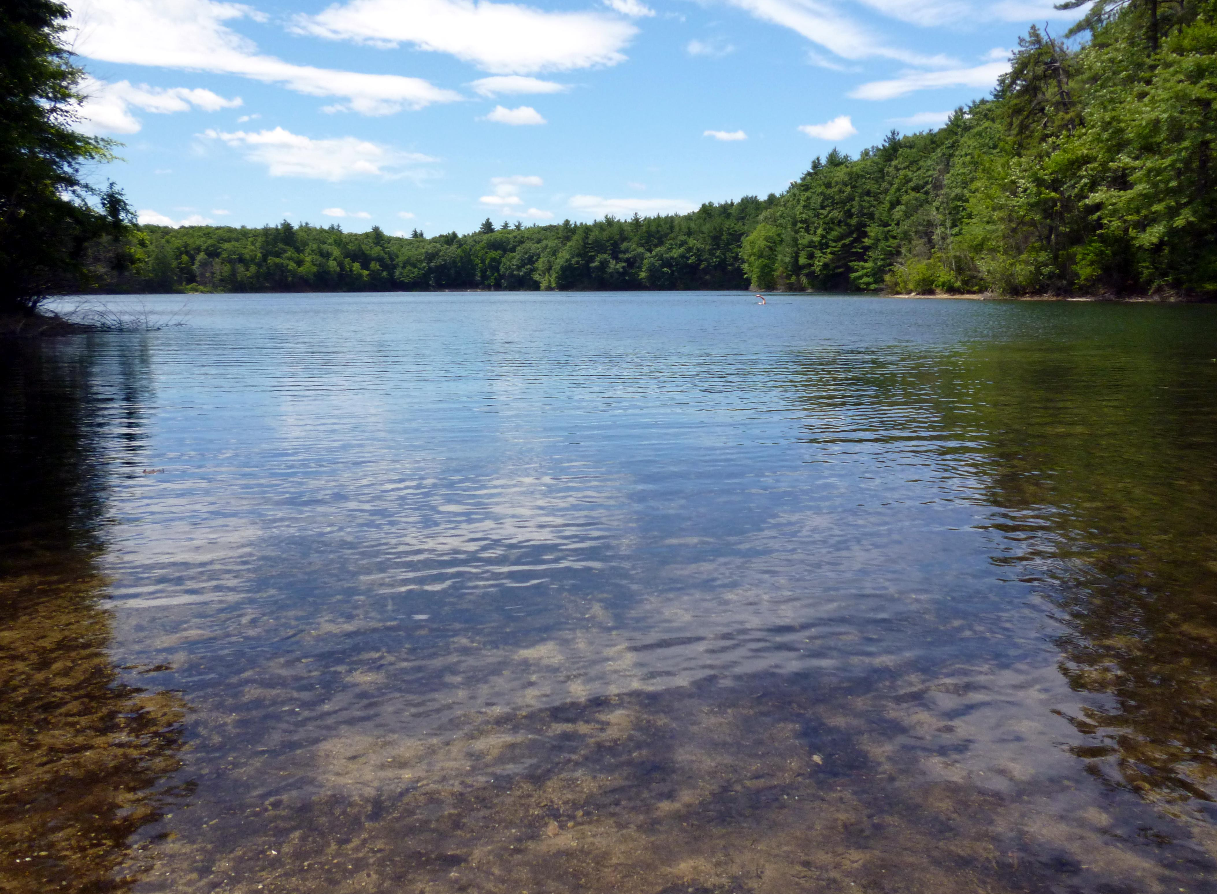 Walden Pond in late June